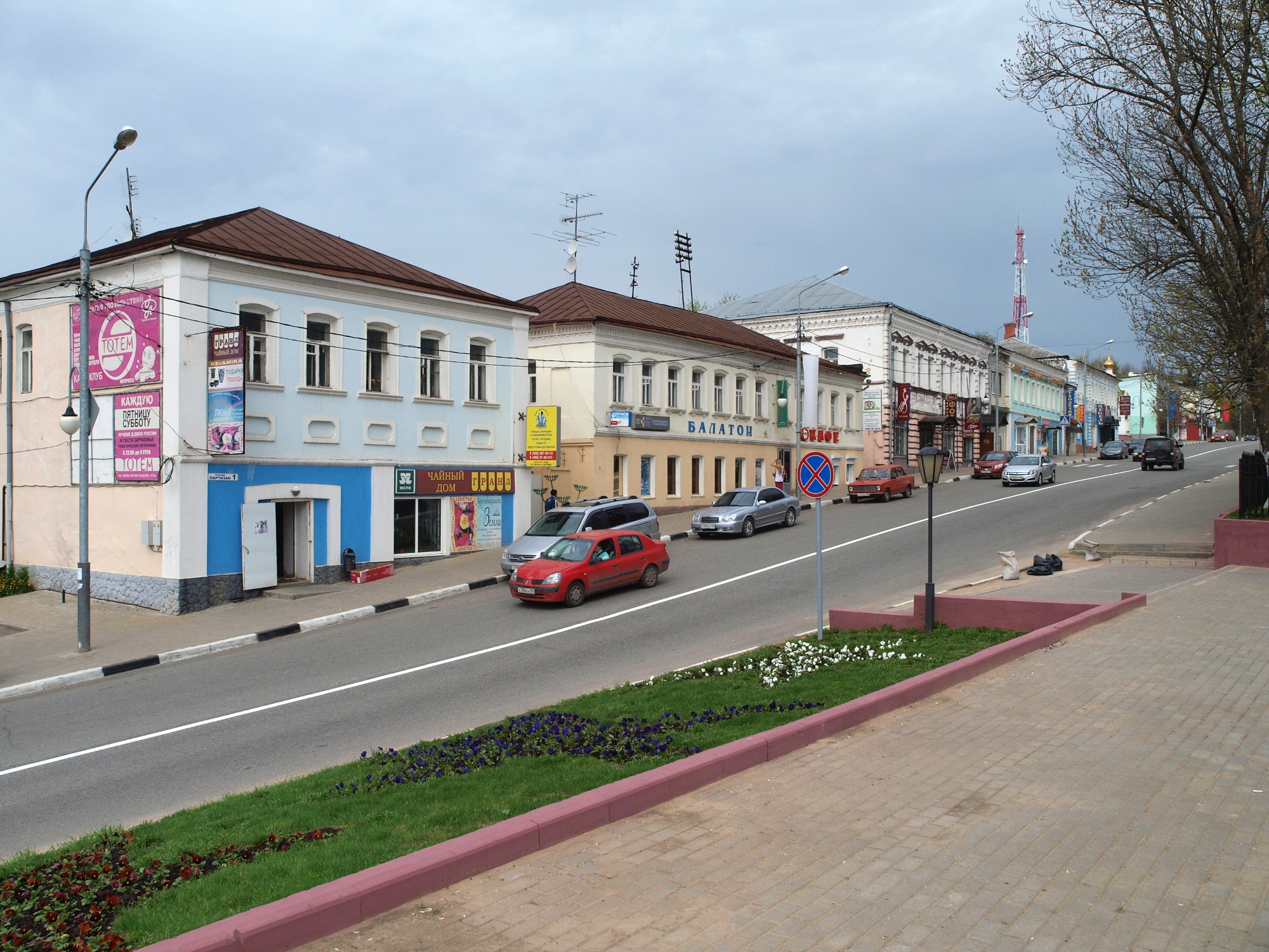 Partizan Square in Ruza.